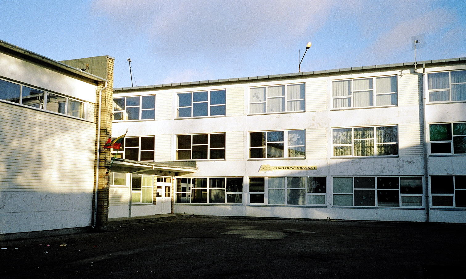 Secondary school 15-ta vidurinė in Klaipėda